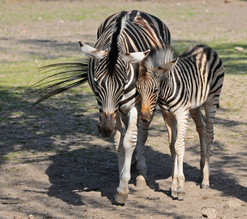 Chapman zebra in the zoo of Delitzsch in Saxony/Germany.